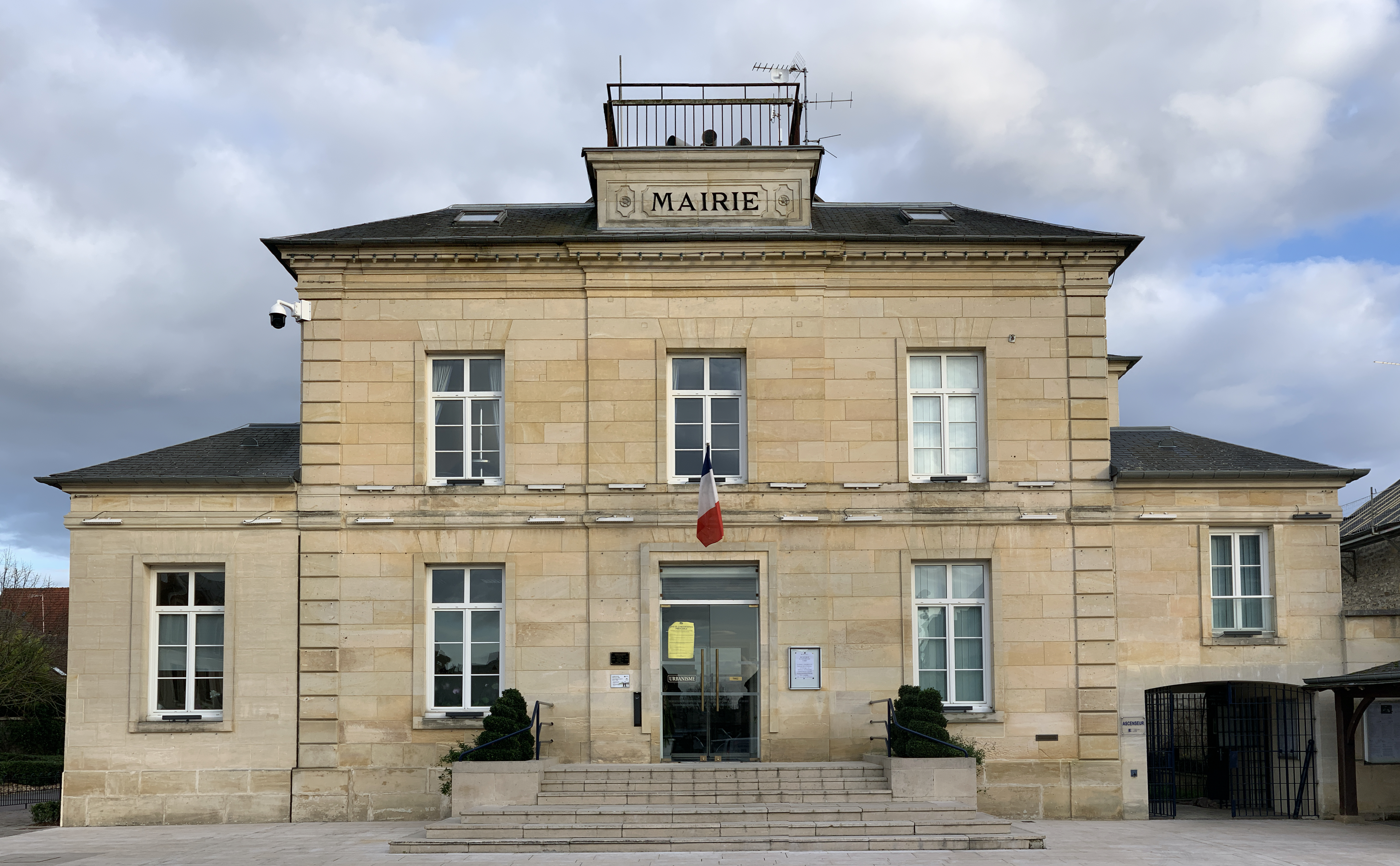 Town hall of Gouvieux in Oise department, France.